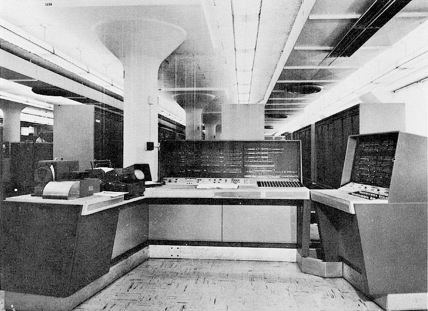 UNIVAC 1105 console, Bureau of the Census, Suitland, MD.